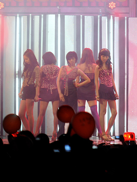 The Wonder Girls performing "So Hot" at the M Super Concert, held in Gyeongju.